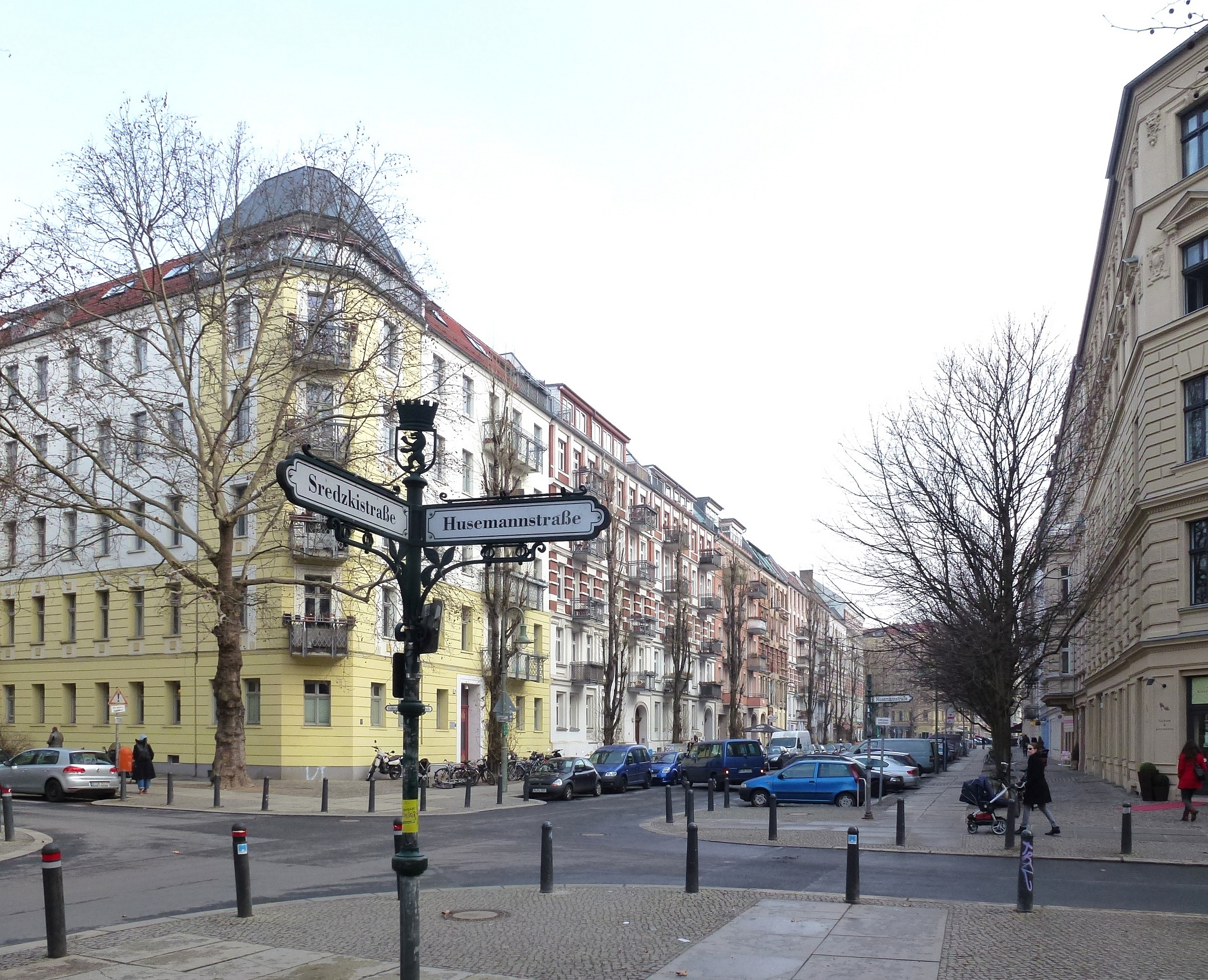 Berlin-Prenzlauer Berg Sredzkistraße / Husemannstraße